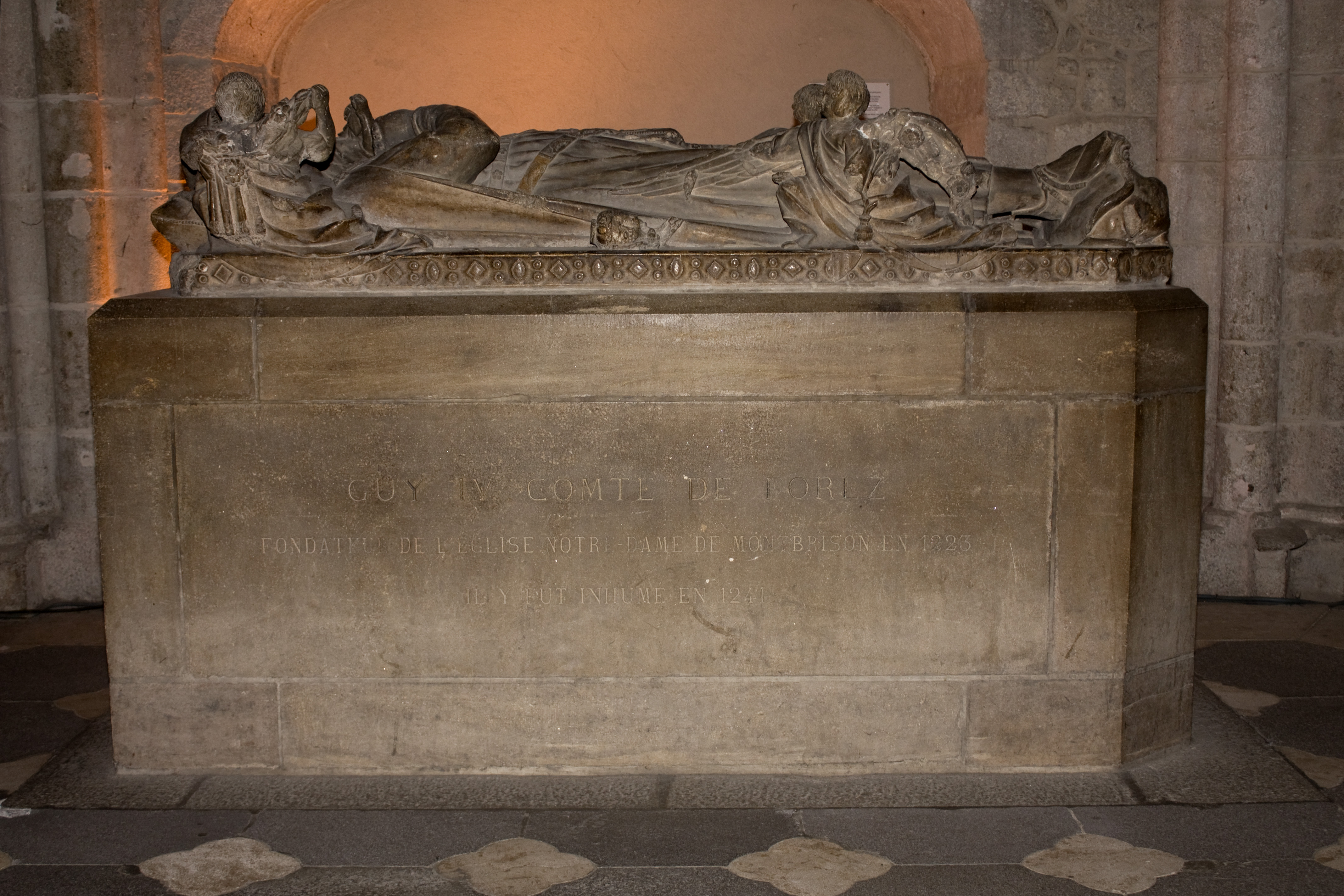 Grave and effigy of the Count Guy IV de Forez.